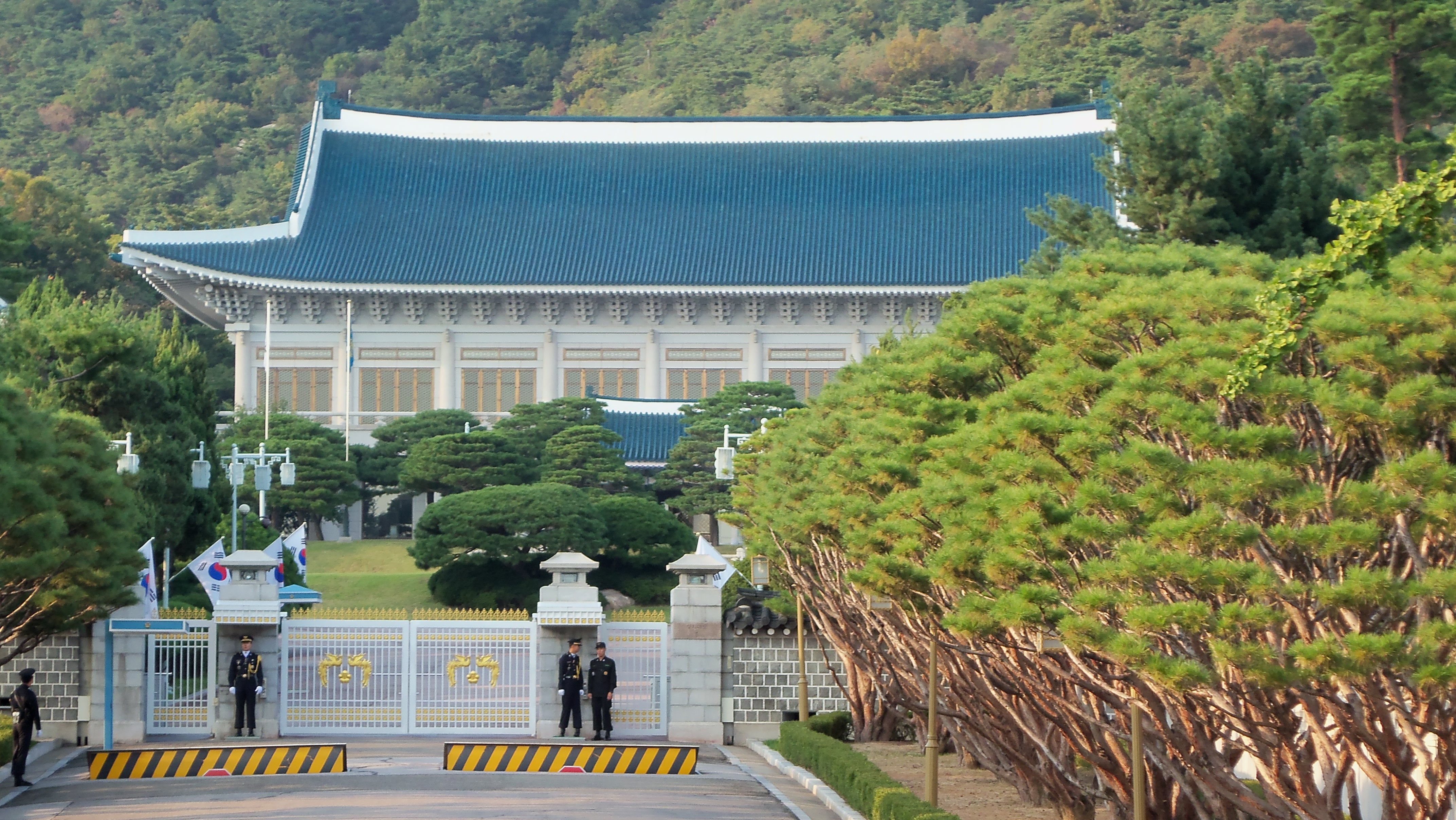 The Blue House. Cheongwadae.